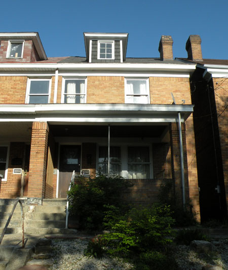 Andy Warhol's childhood home located at 3252 Dawson Street in the South Oakland neighborhood of Pittsburgh, Pennsylvania, on April 30, 2010. "Andy lived on Dawson Street from 1934 until he left for New York City in 1949. These fifteen years were the most formative years of his life."[1]